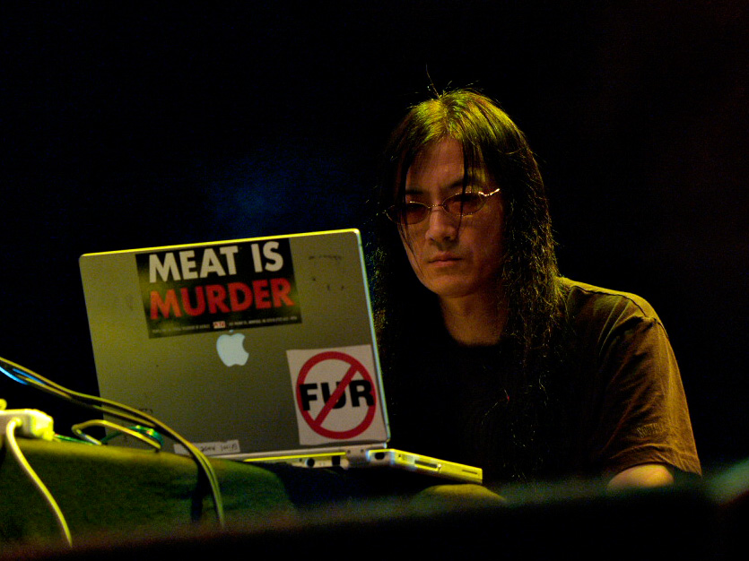 Masami Akita aka Merzbow at moers festival 2007 self made/own work, may 26, 2007 photo: nomo/michael hoefner